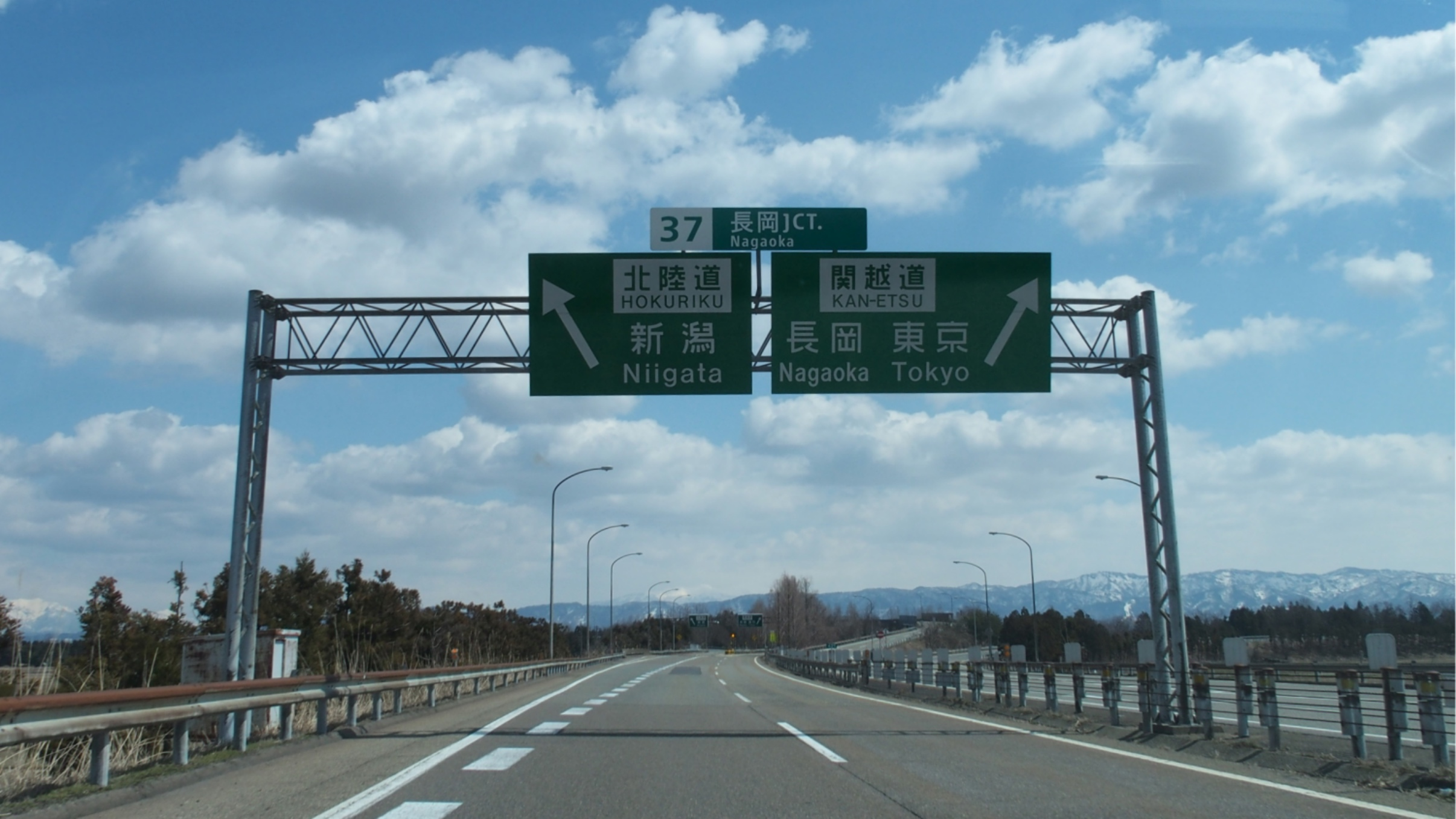 Nagaoka Junction (taken from Toyama side). cropped and straighten from File:Nagaoka JCT.jpg